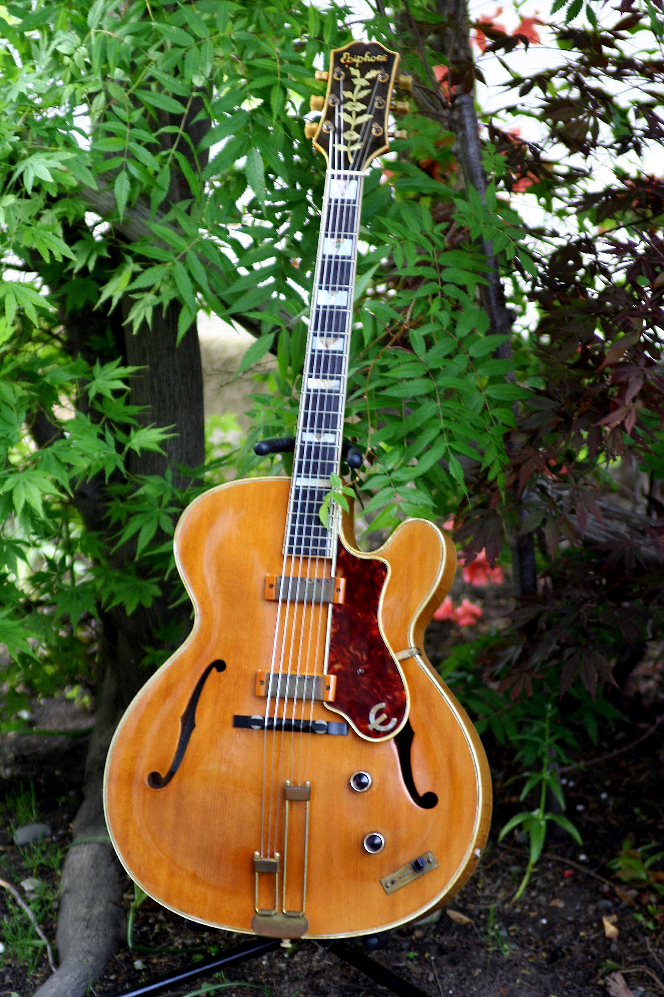 Epiphone Zephyr